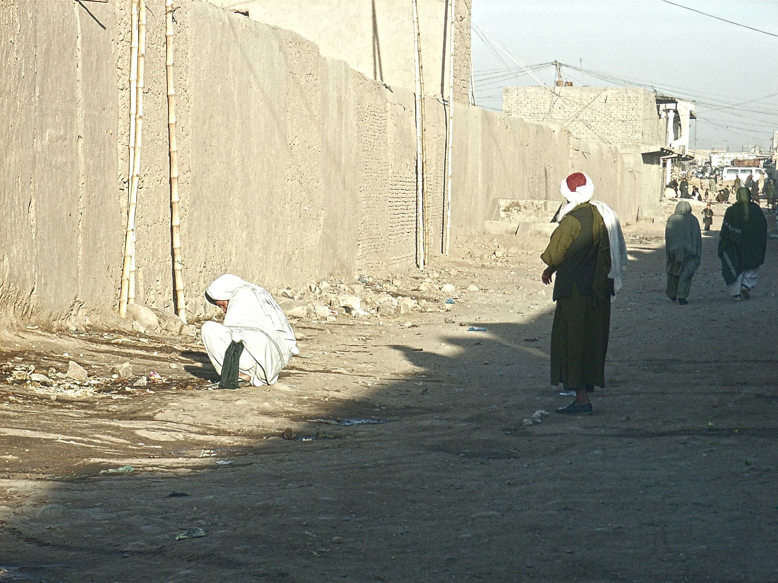 (Photo: Dec. 2009, N. Khawaja, Tirin Kowt)